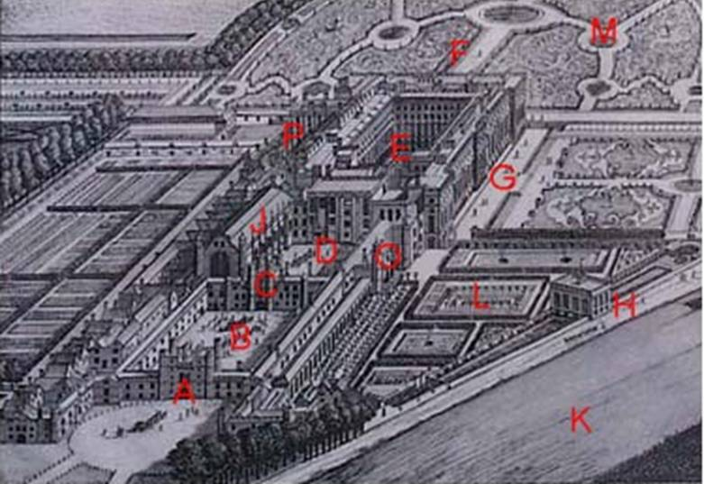 Plan of Hampton Court Palace, Middlesex A: West Front & Main Entrance B: Base Court C: Clock Tower D: Clock Court E: Fountain Court F: East Front G: South Front H: Banqueting House J: Great Hall K: River Thames M: East Gardens O: Cardinal Wolsey's Rooms P: Chapel.